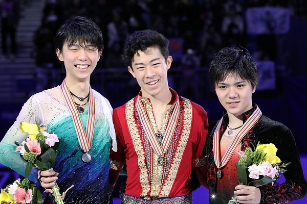 The men's podium at the 2017 Four Continents Championships. From left: Yuzuru Hanyu (2nd), Nathan Chen (1st), Shoma Uno (3rd).